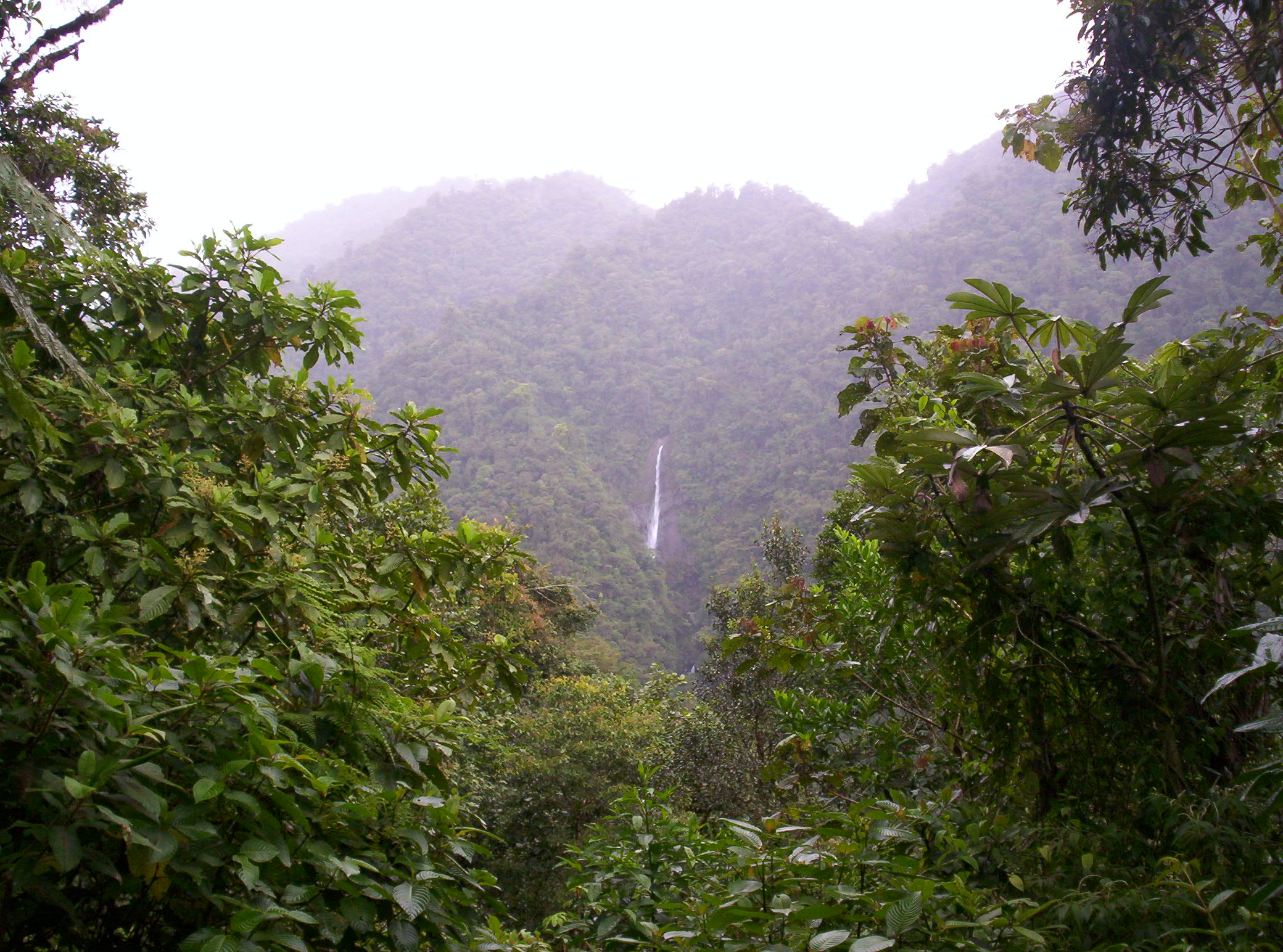 This is a photo I took of a waterfall from the main observatory of the Tapantí National Park in Costa Rica. This picture was taken on August 14, 2005. Tapantc National Park, sometimes called Orosí National Park, is a National Park in the Pacific La Amistad Conservation Area of Costa Rica located on the edge of the Talamanca Range, near Cartago. It protects forests to the north of Chirripó National Park, and also contains part of the Orosí River.